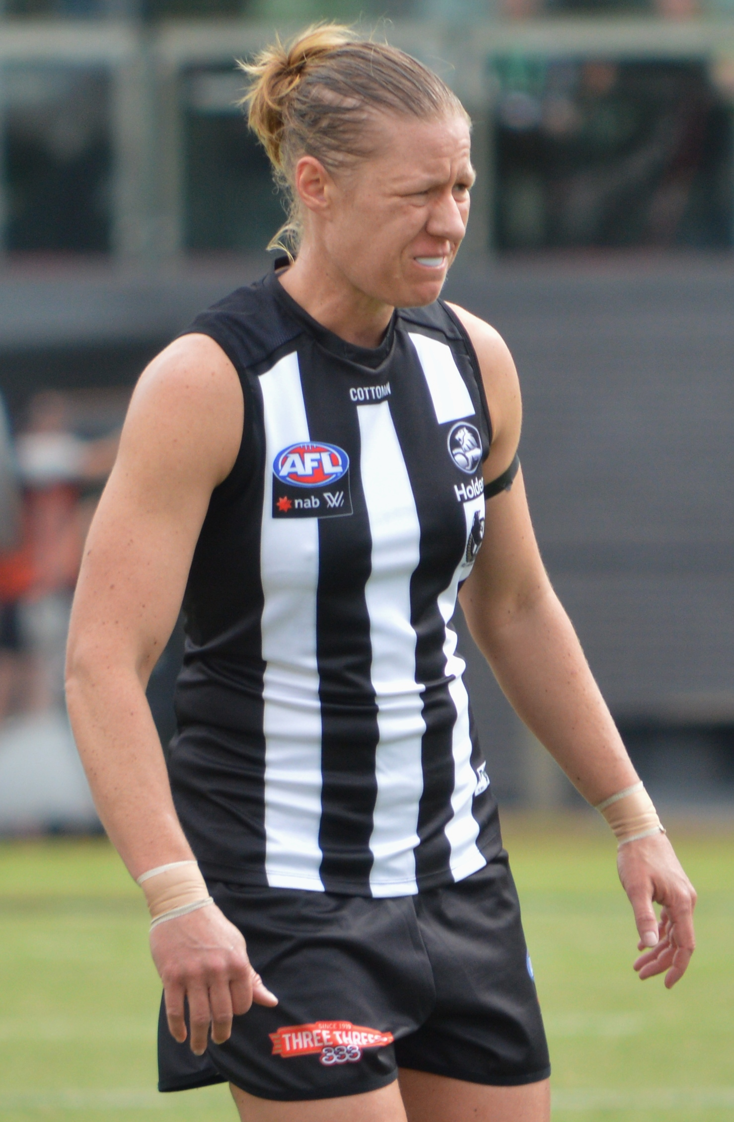 Meg Hutchins during the round 3, 2018, AFL Women's match between Collingwood and Greater Western Sydney